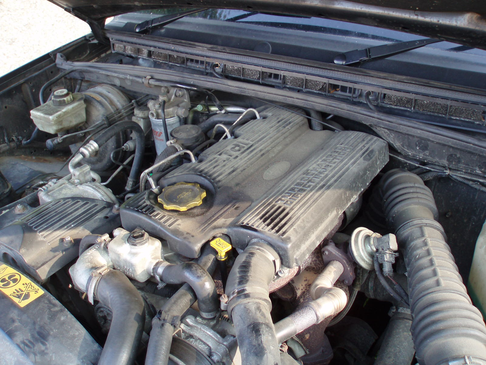 A Land Rover 300Tdi fitted in a 1998 Discovery Series I.